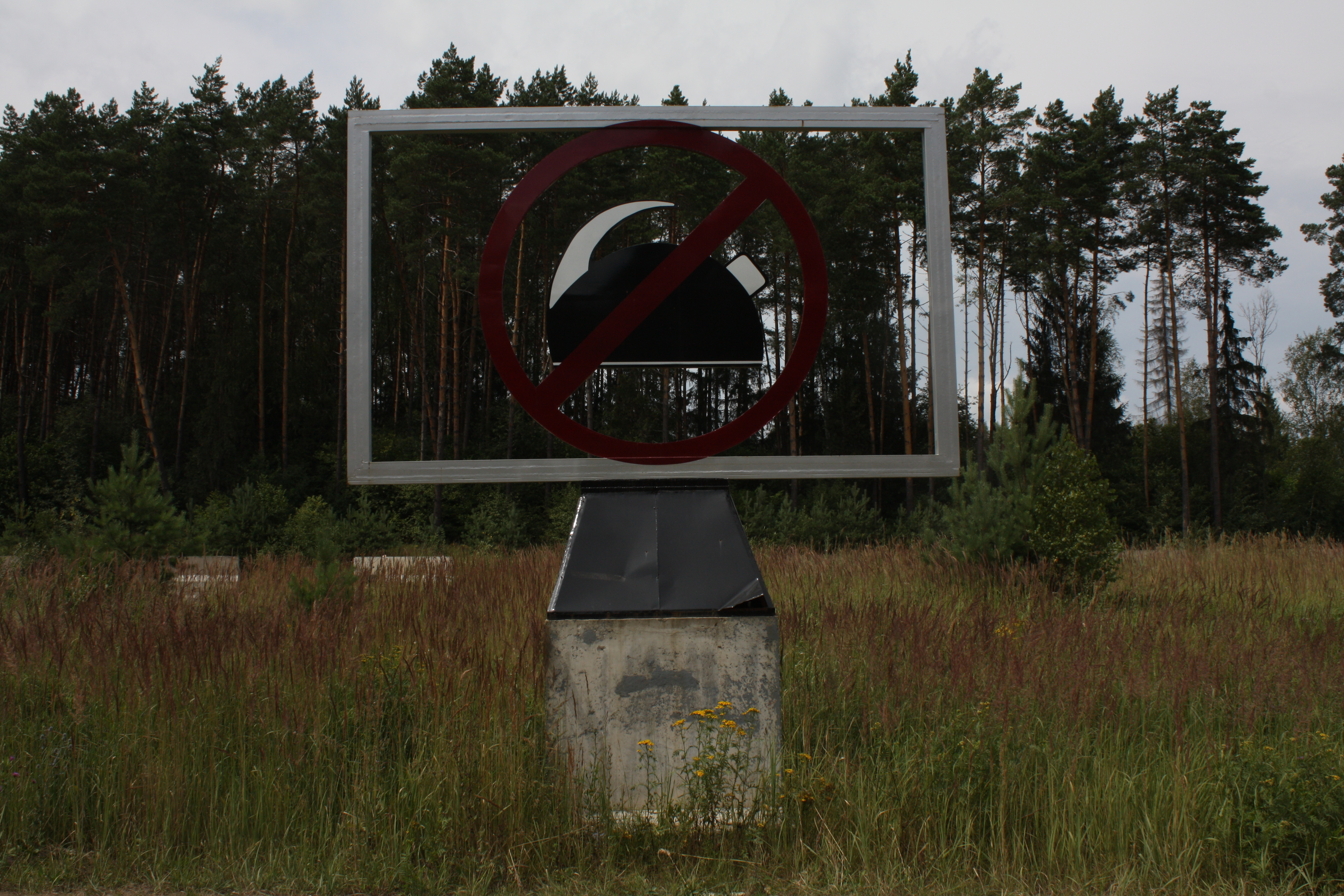 A monument to system administrator, located near Kolyupanovo village, Kaluga region, Russia